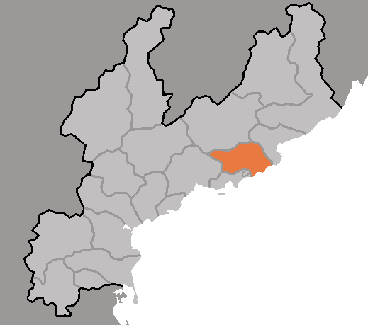 Map of Pukchong, Hamgyong-namdo, DPRK, 2006